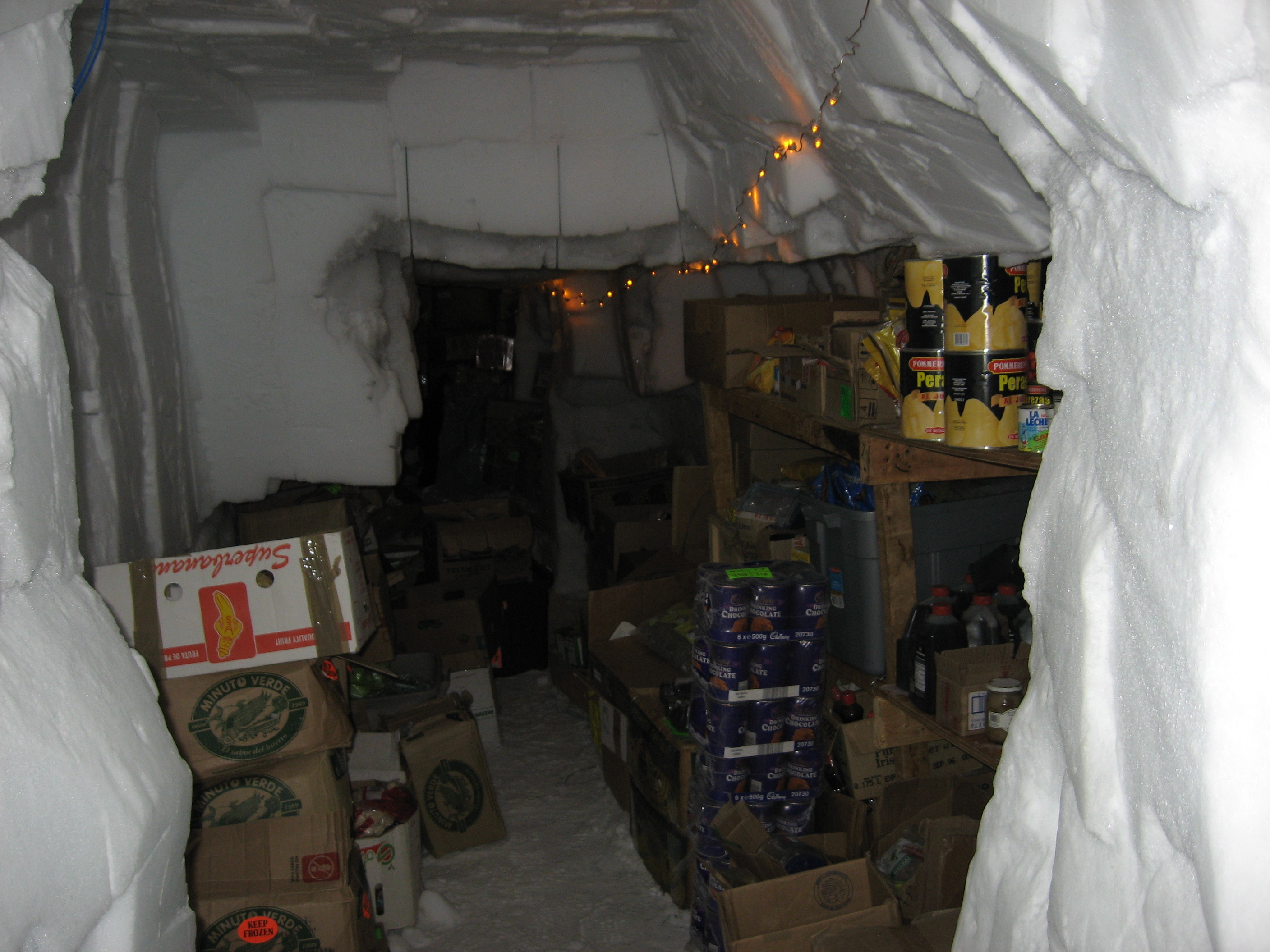 Tunnels beneath Patriot Hills Basecamp in Antarctica. Used to store food and supplies. Taken by Richard Laronde on 1/9/2007.